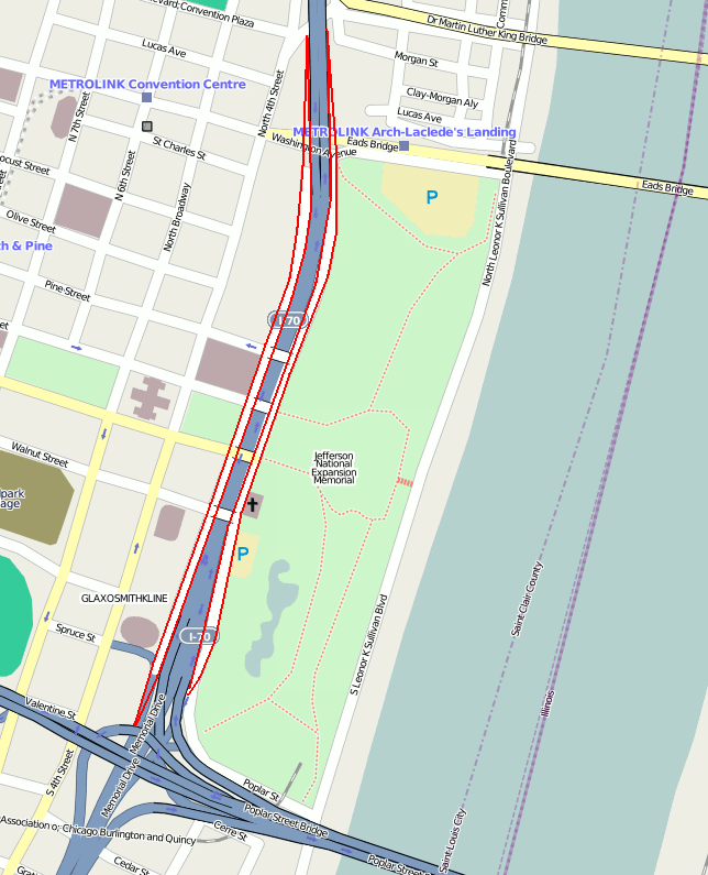 An overhead street map of the Memorial Drive area in St. Louis, Missouri.